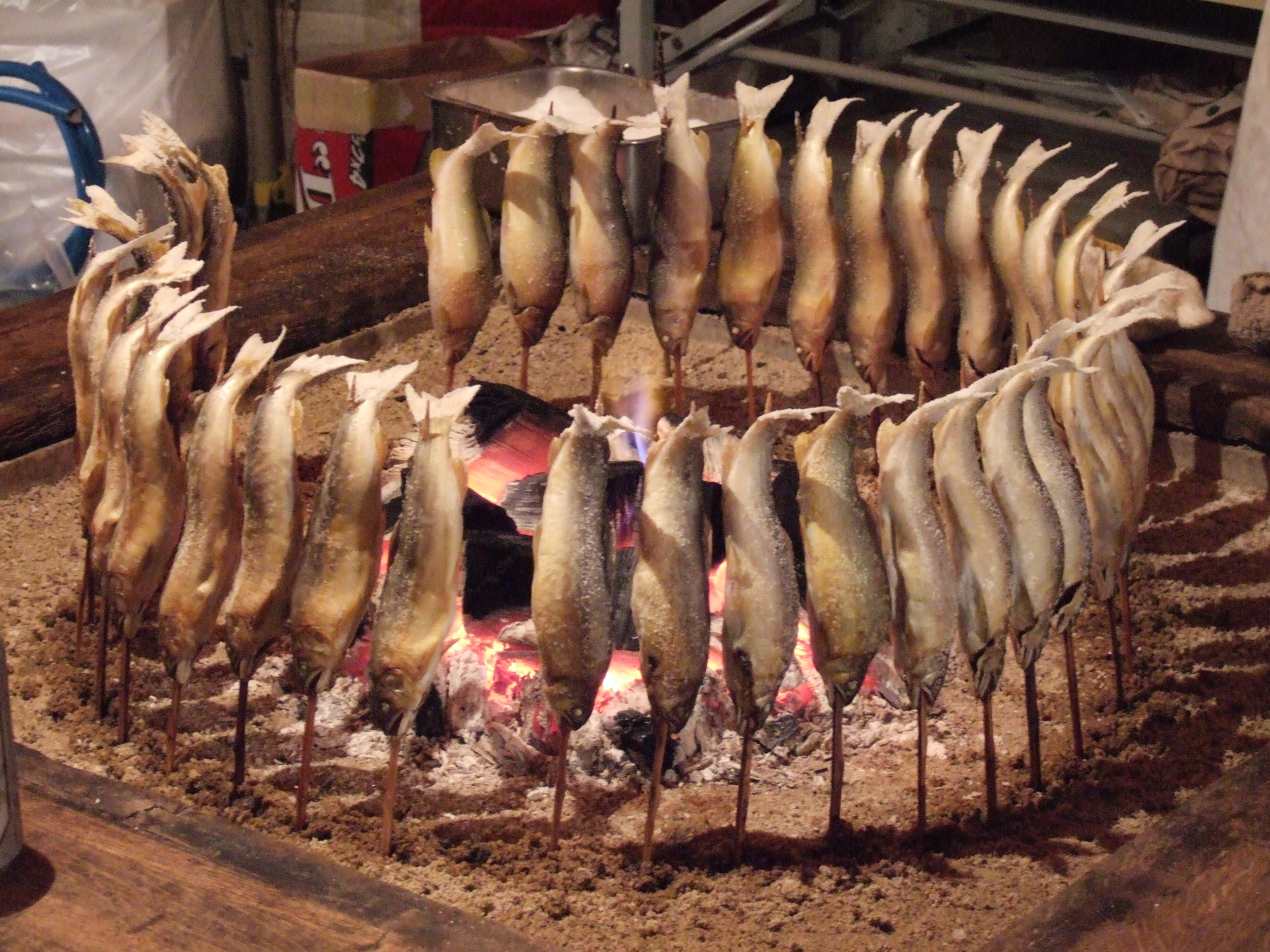 Sweetfish, ayu, (Plecoglossus altivelis grilled) at Tenjinmatsuri food stall 鮎の炉端焼き